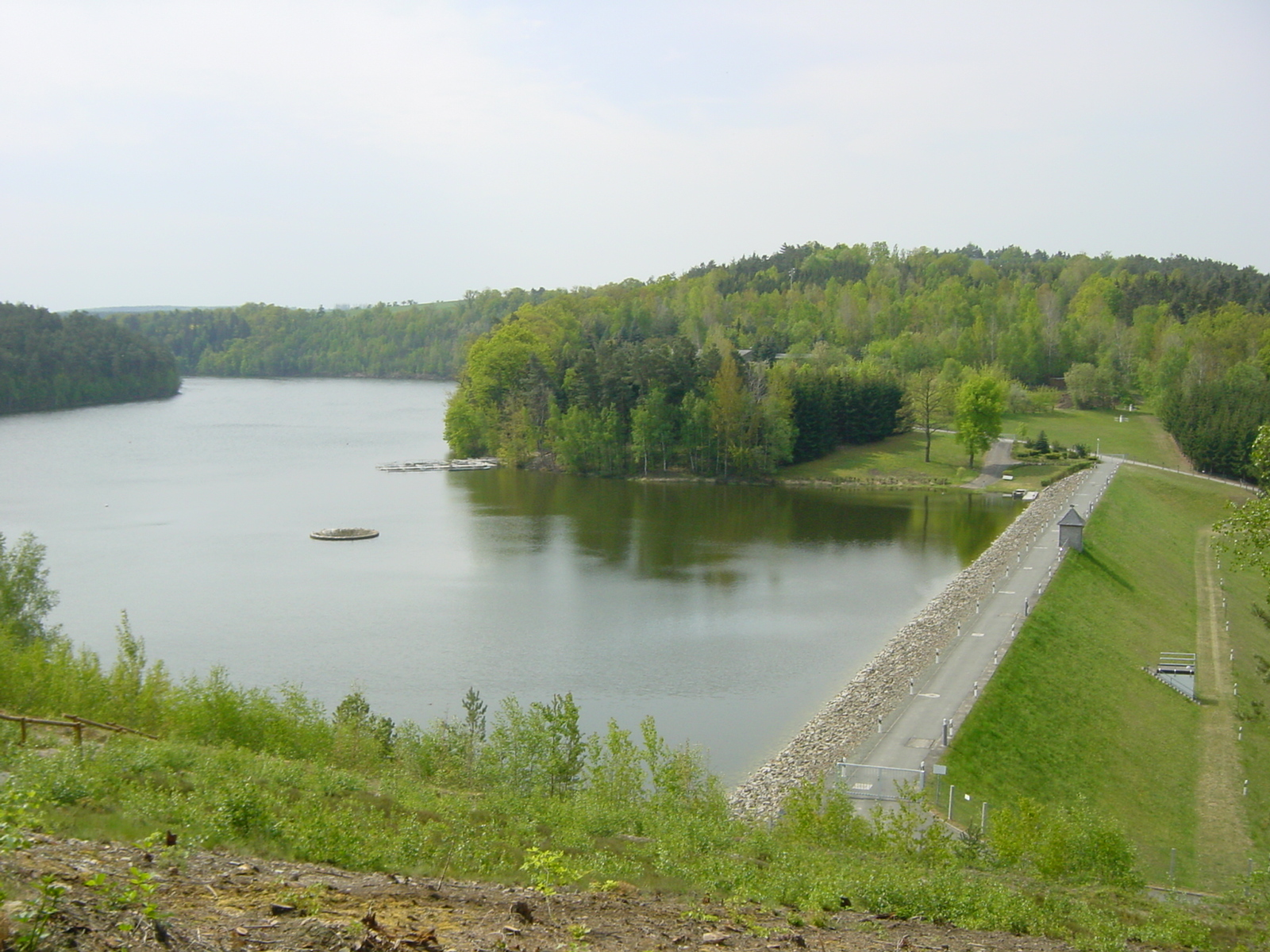 Reservoir and dam of "Talsperre Hohenleuben" in Thuringia, Germany